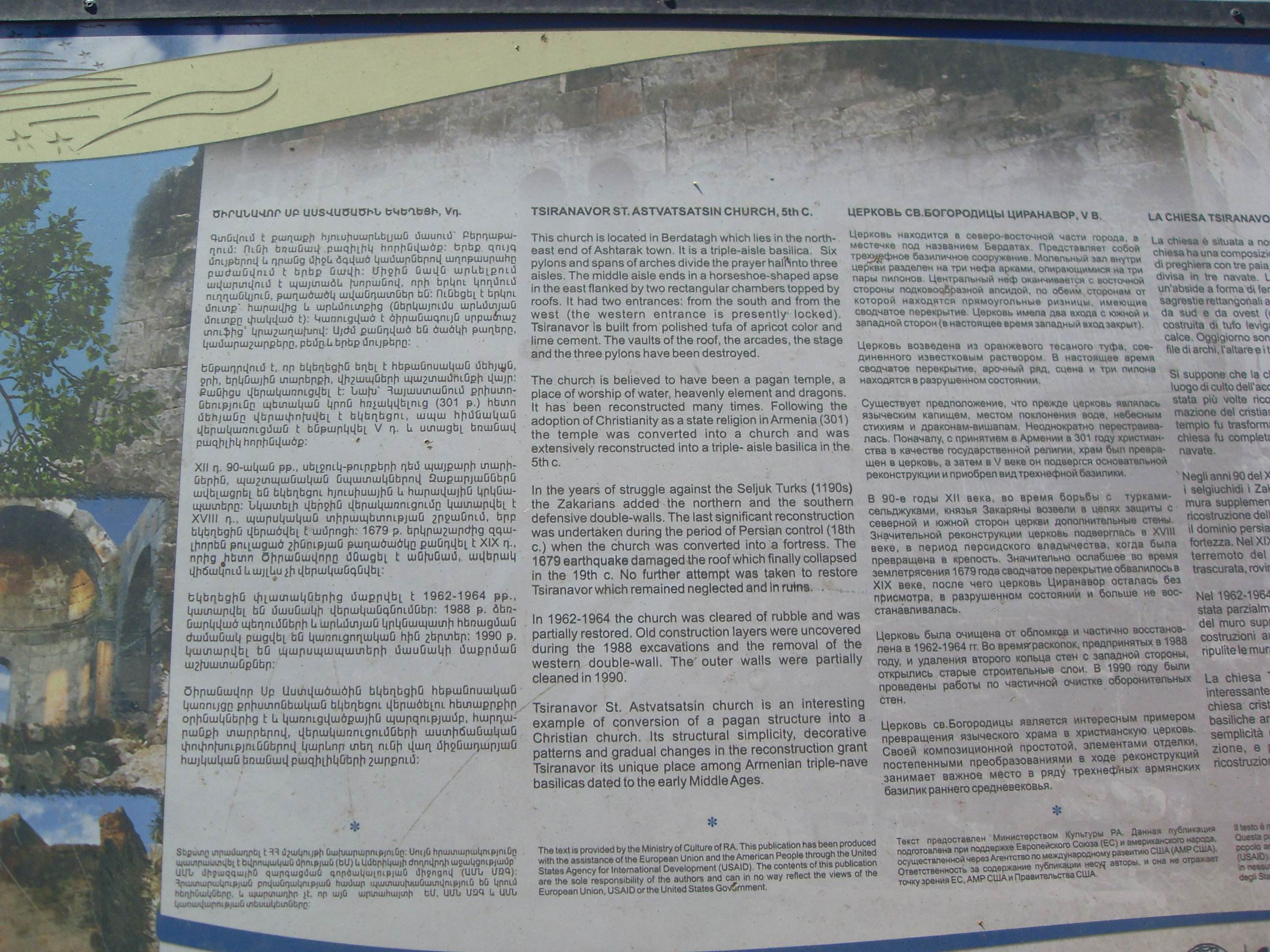 Tsiranavor church, Ashtarak, 5th cent. 1/16